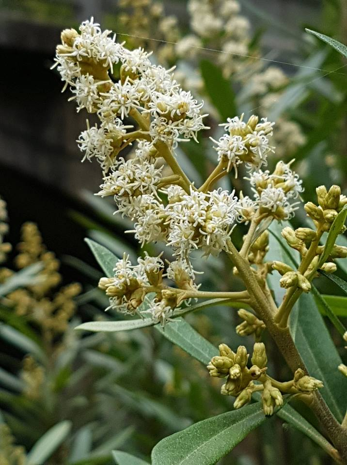 Brachylaena neriifolia (L.) R.Br. - Blaaukrantz Pass nr Nature's Valley, South Africa